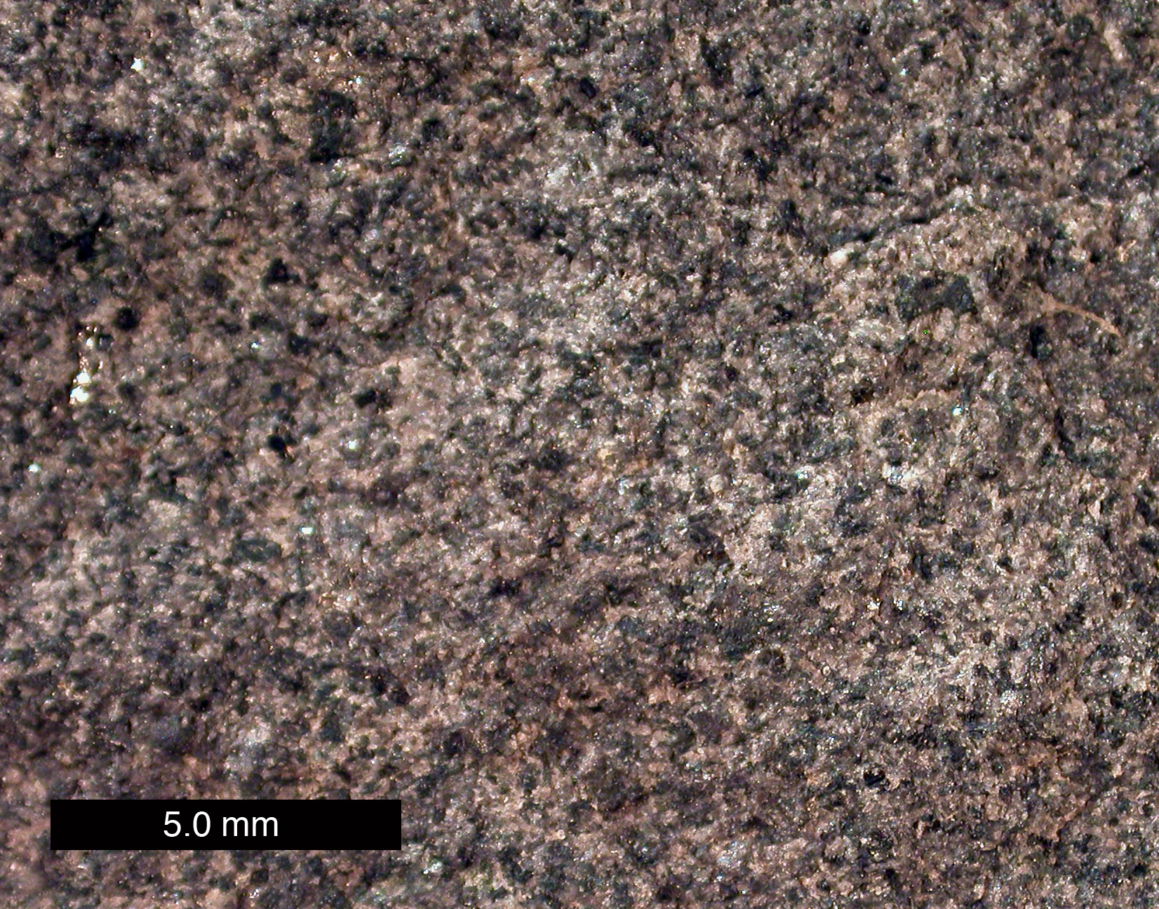 Close-up of gabbro specimen; Rock Creek Canyon, eastern Sierra Nevada, California.